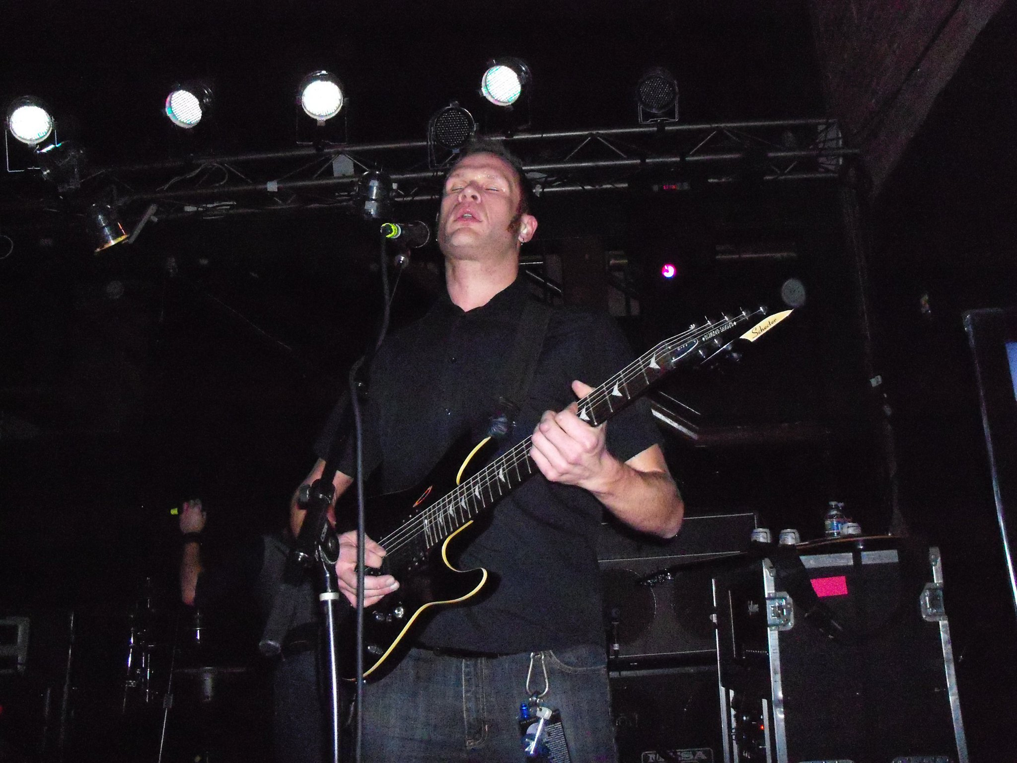 adam in baltimore, with Times of Grace